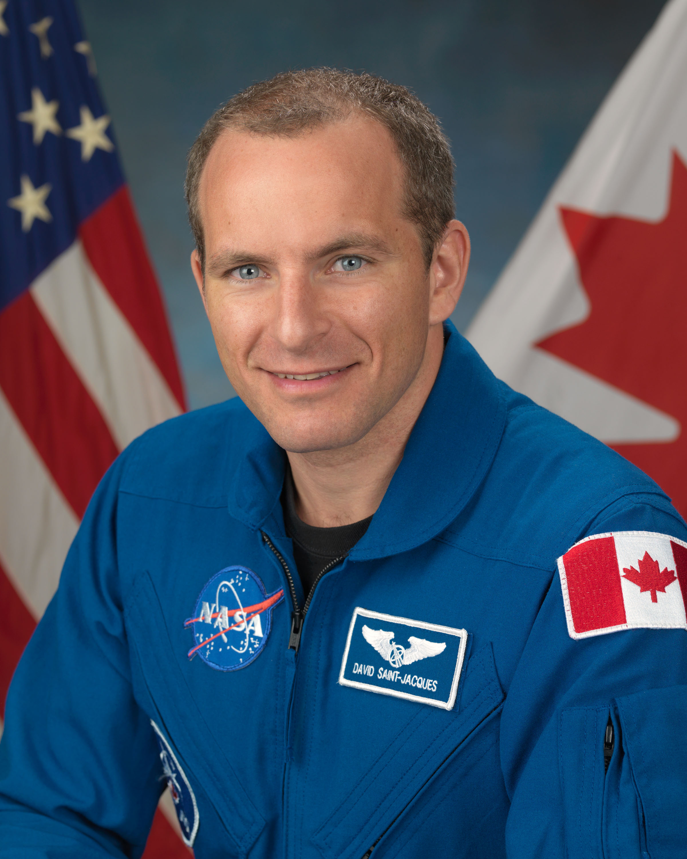 David Saint-Jacques, Canadian Space Agency astronaut candidate class of 2009